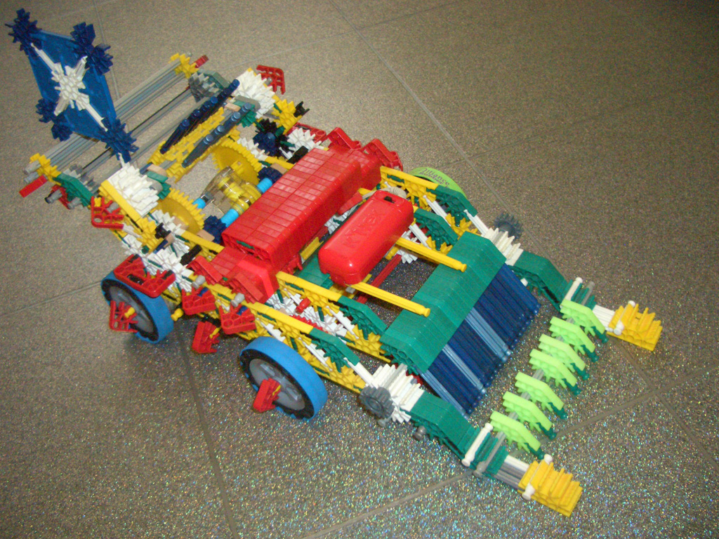 Own photograph, taken May 2008. Source